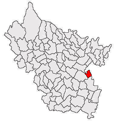 Limits of the commune of Robeasca in Buzău County, Romania